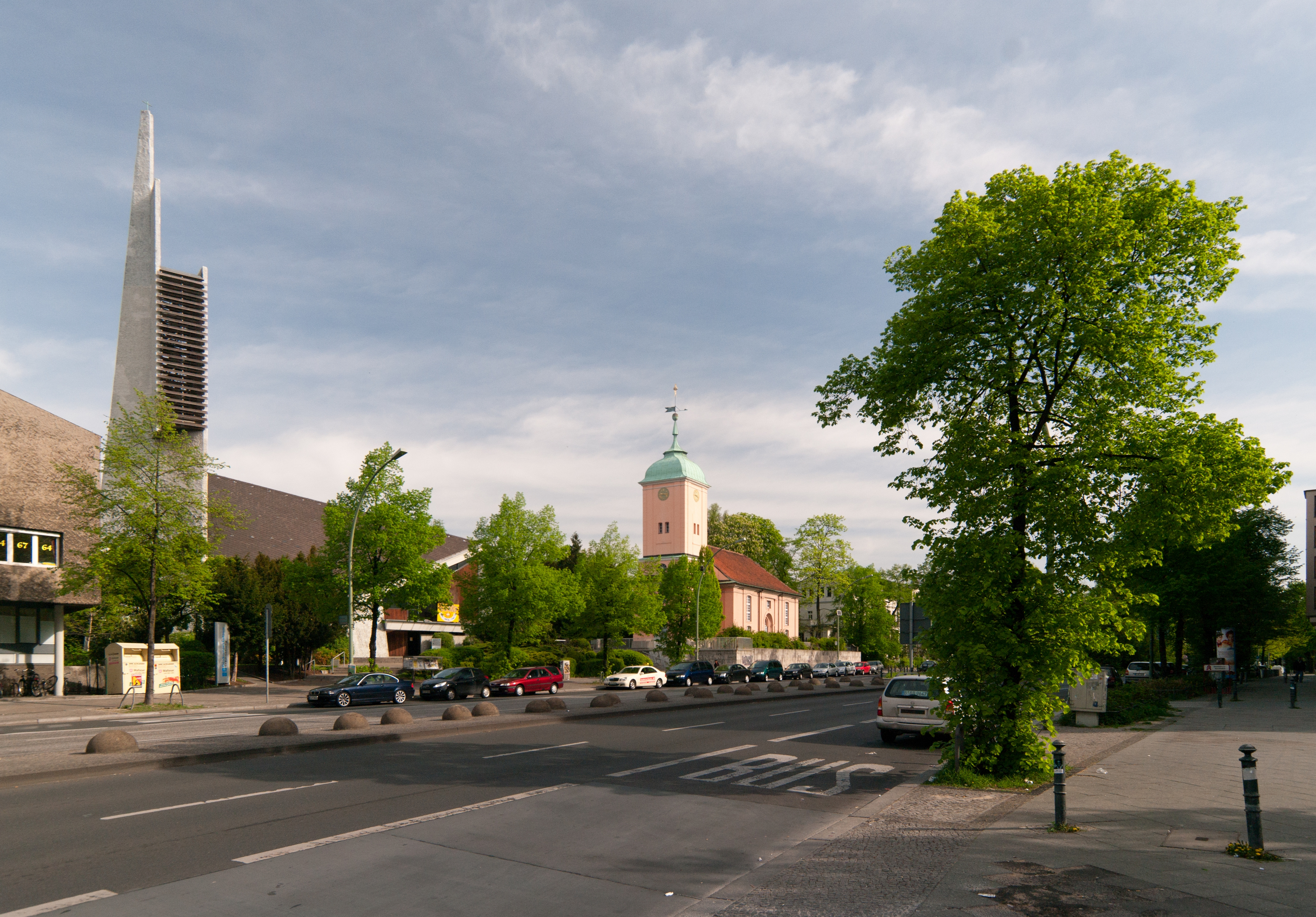 View north along Hauptstrasse street in Berlin-Schöneberg. You can see the older Dorfkirche (Village church) and the newer Paul Gerhardt Church